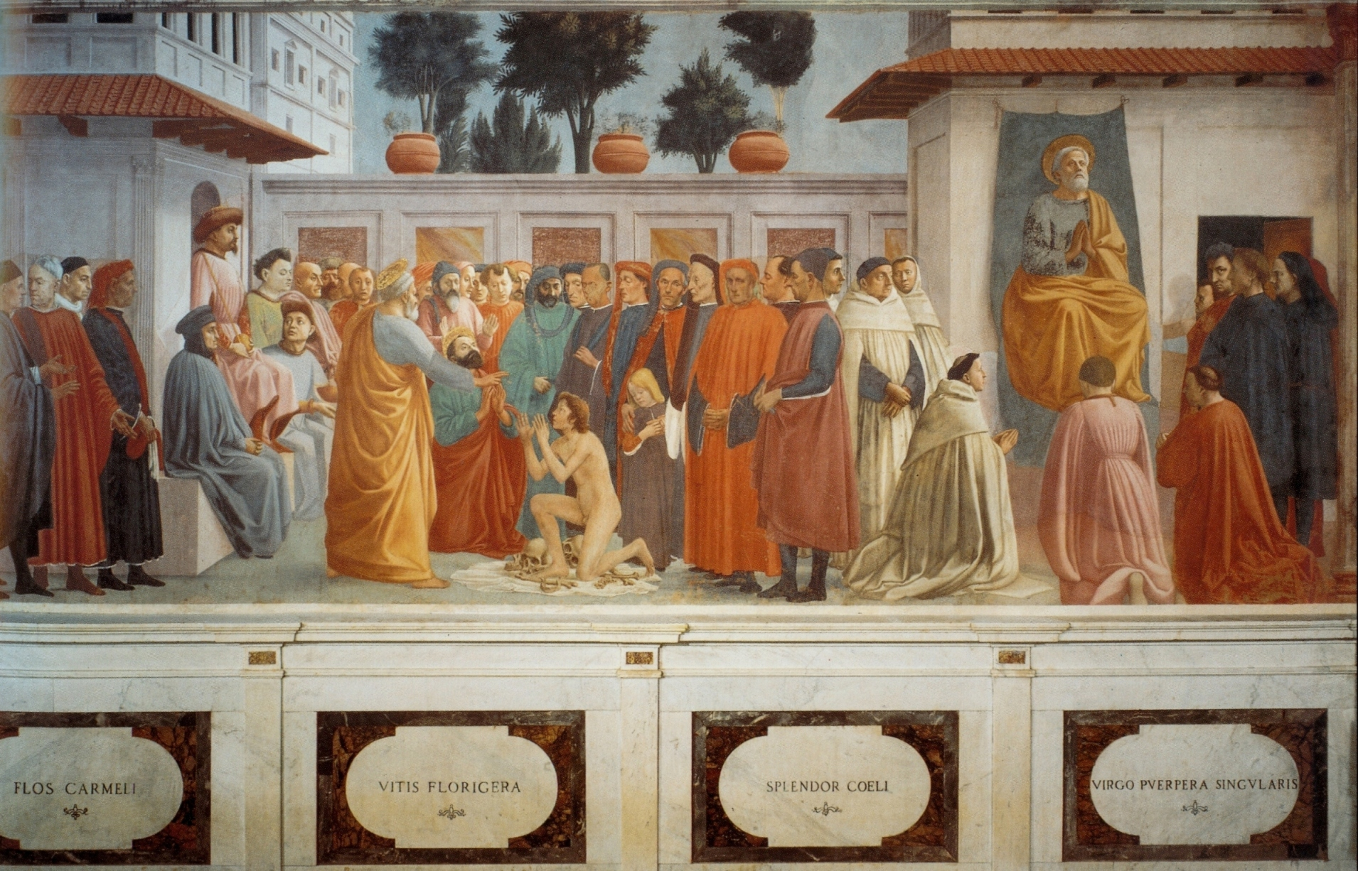 Masaccio._Raising_of_the_Son_of_Teophilus_and_St._Peter_Enthroned._fresco.